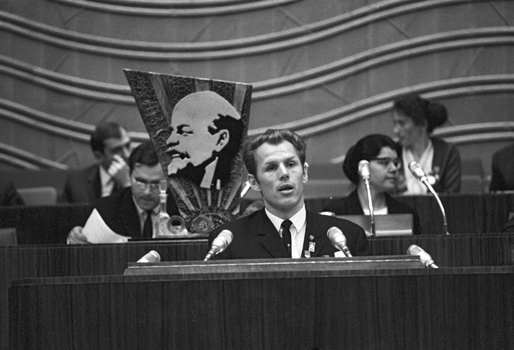 “16th Congress of YCL”. Vyacheslav Starshinov, a delegate to the 16th Congress of the Young Communist League, the captain of the USSR national ice hockey team, many-time champion of Europe and the world, addressing the Congress in the Kremlin Palace of Congresses.